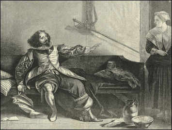 Charles Dickens acting the role of Captain Bobadill in Ben Jonson's Every Man in his Humour, 1845